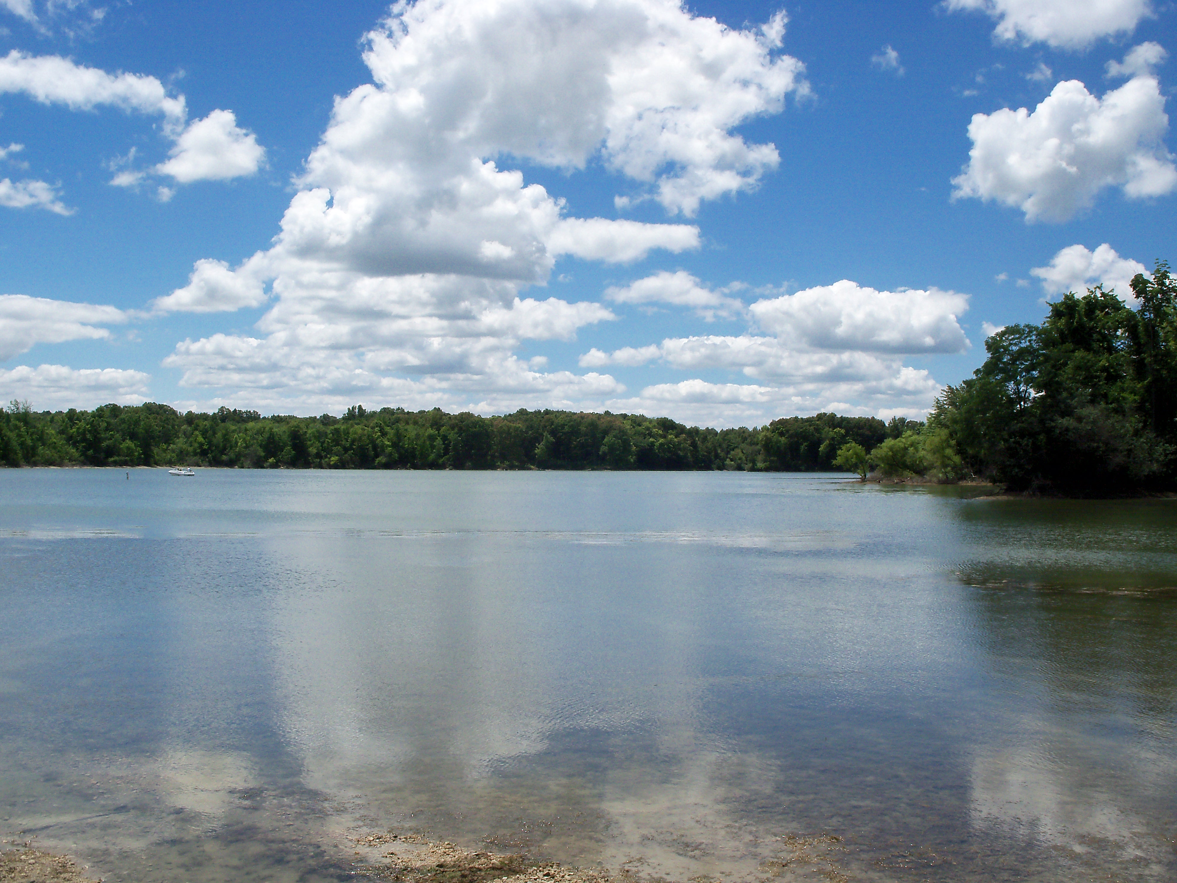 The Michael J Kirwan Reservoir as seen from the boat launch at West Branch State Park in Charlestown Township, Portage County, Ohio